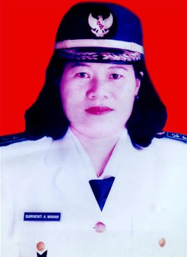 Suryatati Abdul Manan as the Administrative Mayor of Tanjung Pinang from 1996 until 2001.